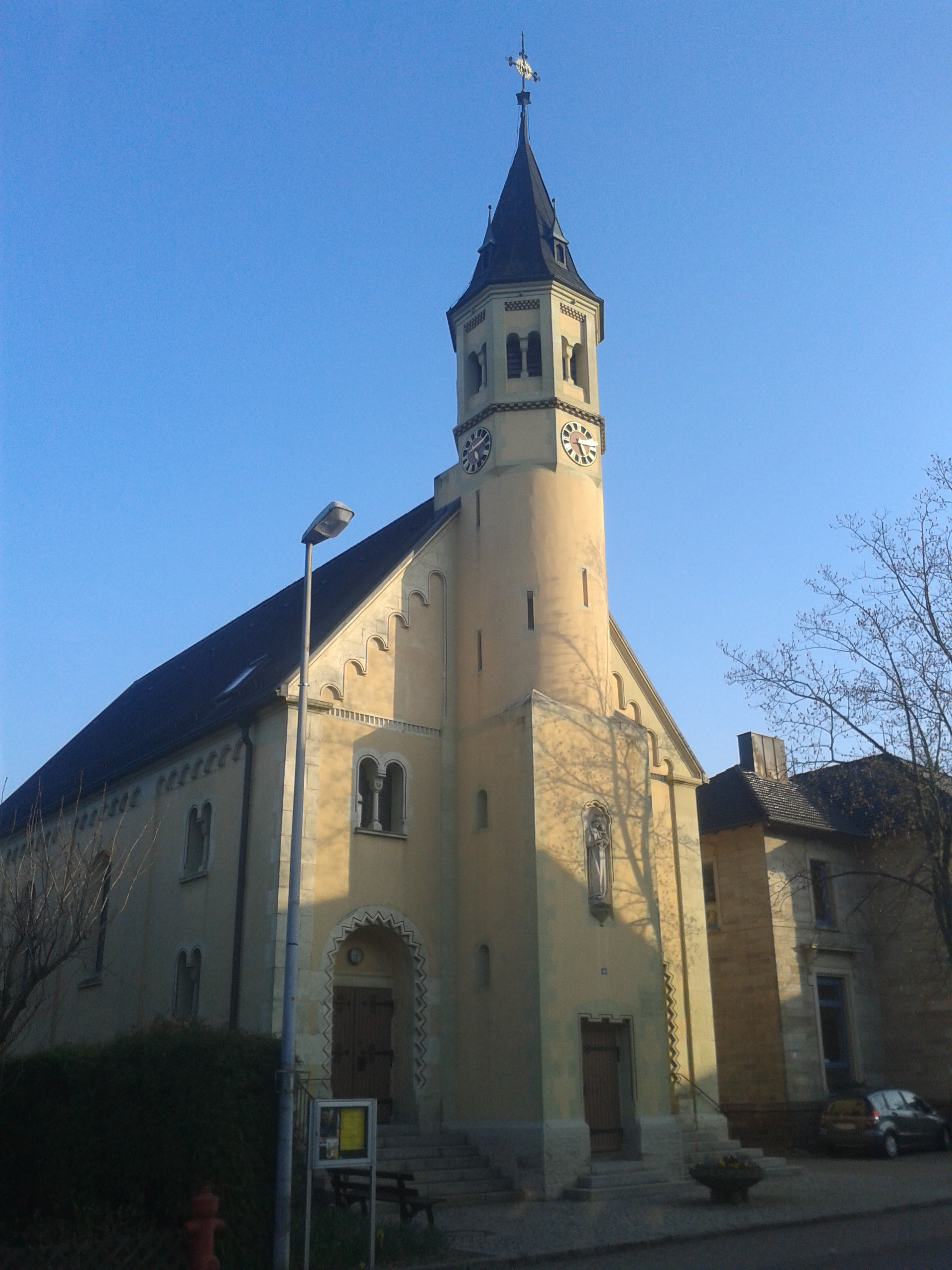 The picture shows the church of Kartung, Germany.